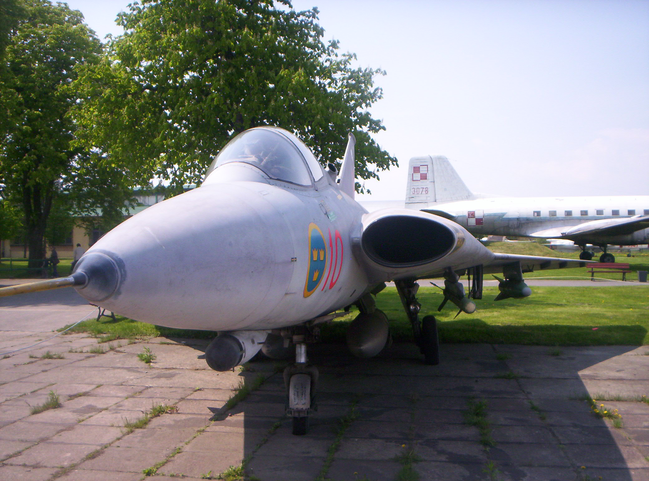 Saab J 35J Draken at Polish Aviation Museum in Krakow, Poland